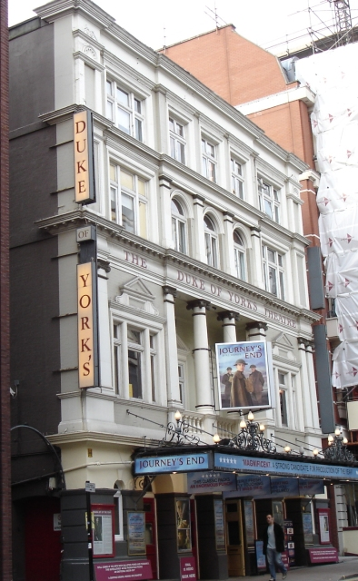 Duke of York's Theatre, London Photo taken by lonpicman